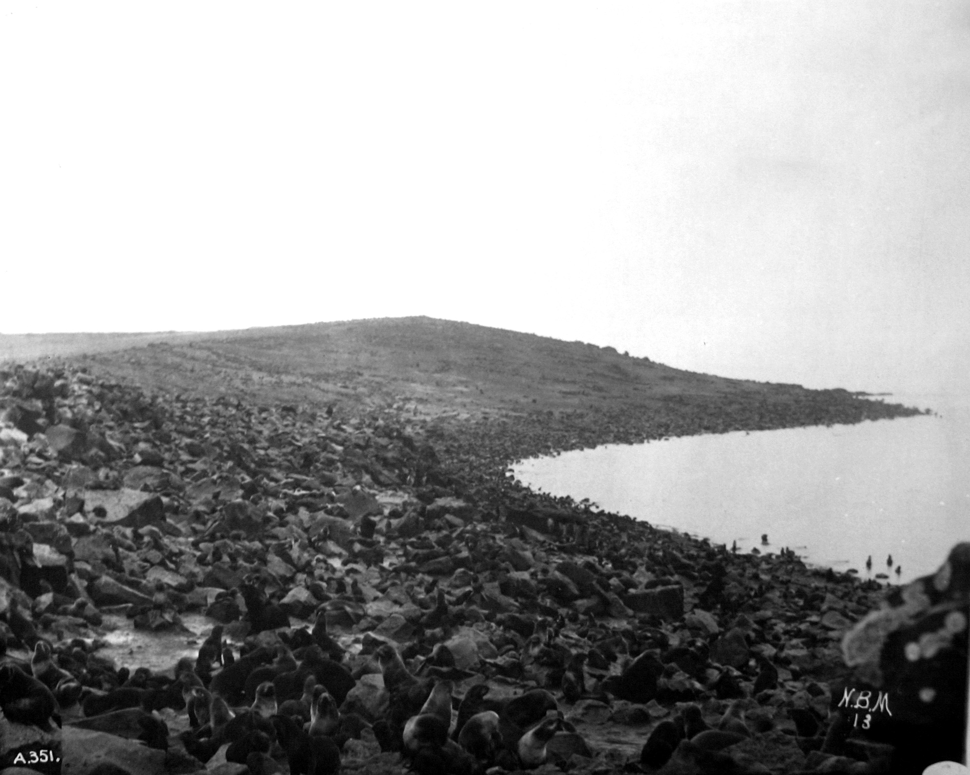 Fur seal rookeries, reef rookery, Garbotch rookery; Alaska, St. Paul Island, Pribilof Islands